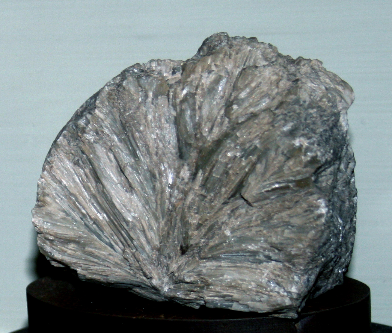 Mineral barite from collection of National Museum, Prague, Czech Republic, originally from Italy